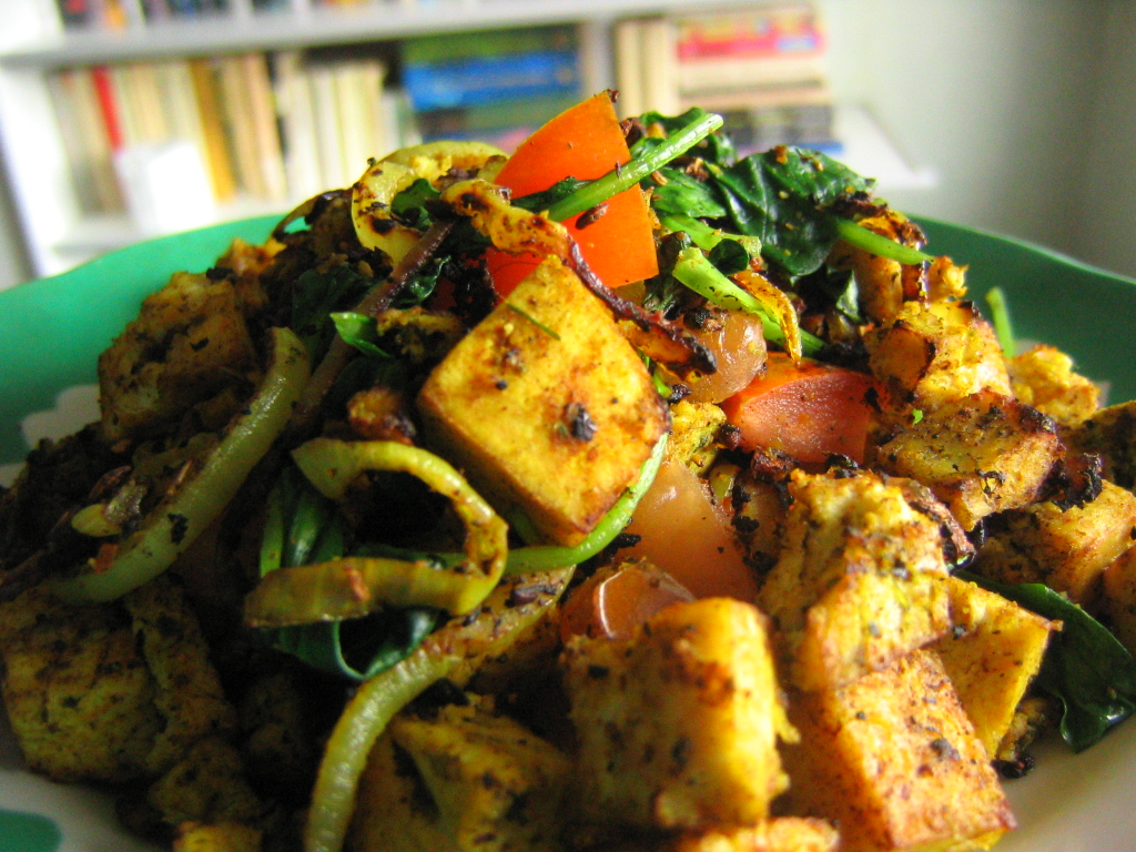 Tofu scramble (vegan)